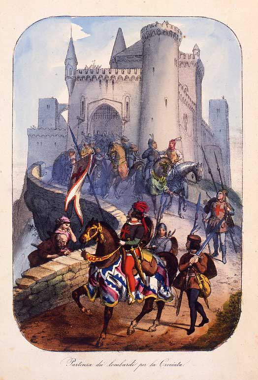 Partenza dei Lombardi per la Crociata (The departure of the Lombards for the Crusade) - illustration from I Lombardi alla prima crociata by Tommaso Grossi.